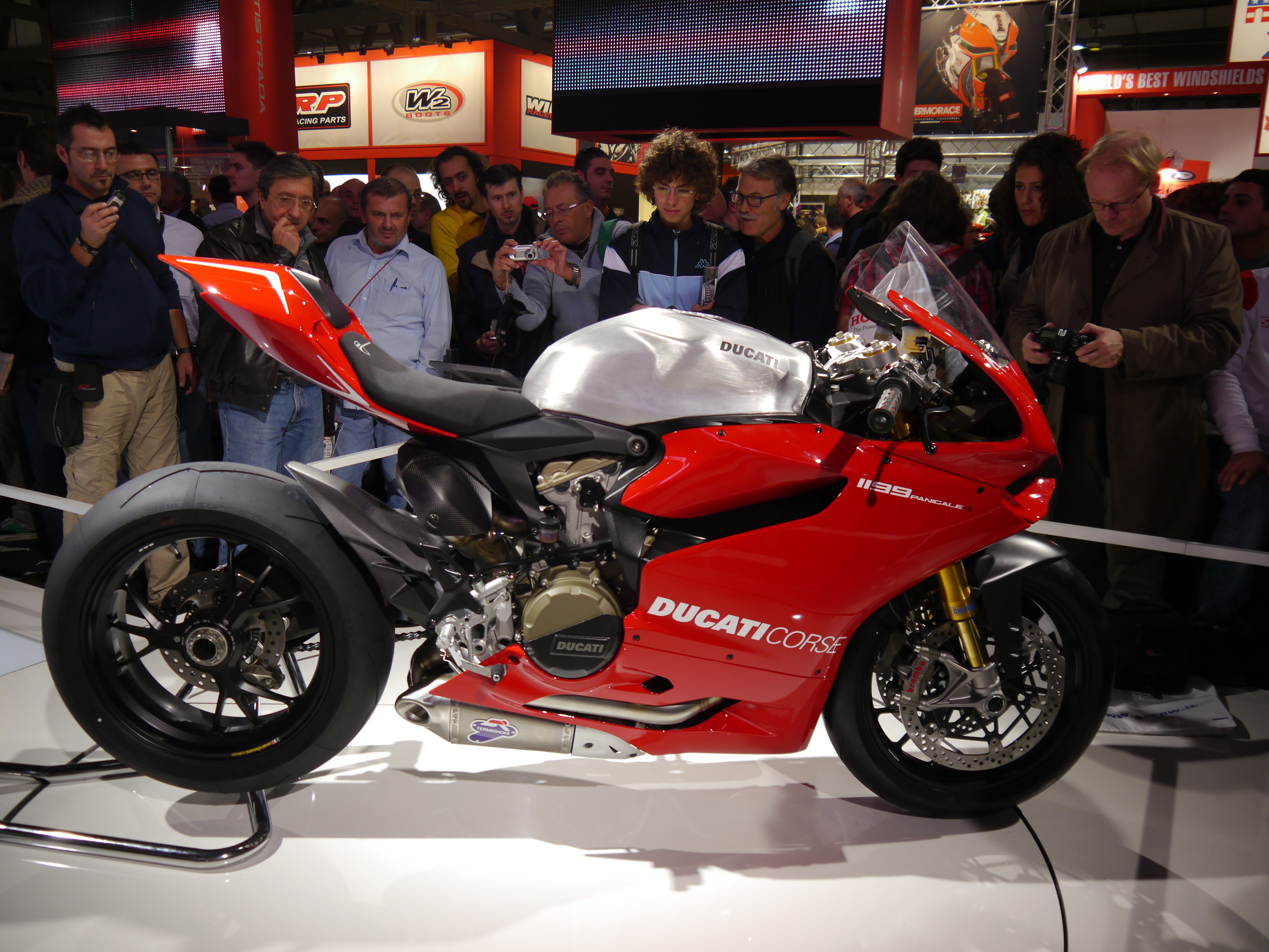 Ducati 1199 being presented at the EICMA 2011